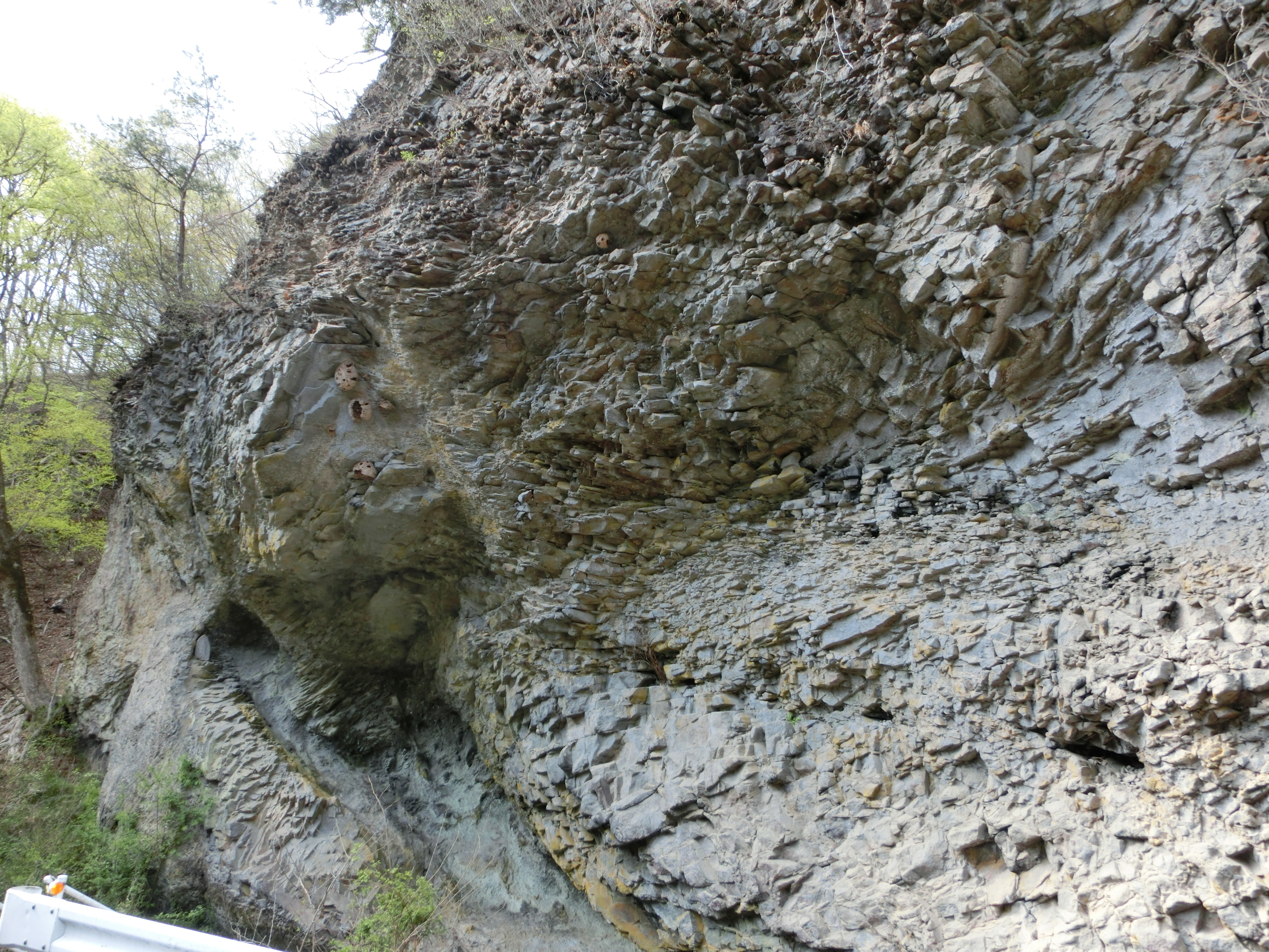 Tsubakuroiwa dyke, a Natural Treasure of Japan specified in 1934, at Mitake-cho, Kofu city, Yamanashi Prefecture.